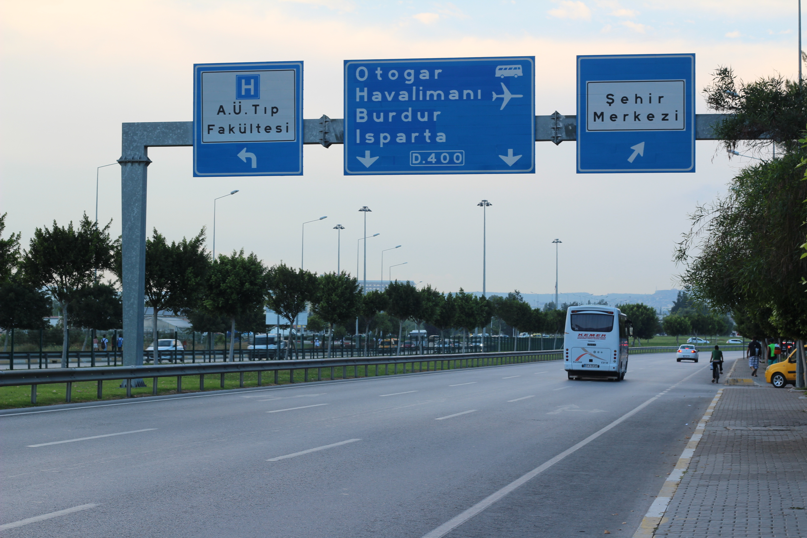 Dumlupınar Boulevard of Antalya, serves the D-650 Highway in Kepez and D-400 on border of Muratpaşa and Konyaaltı districts.